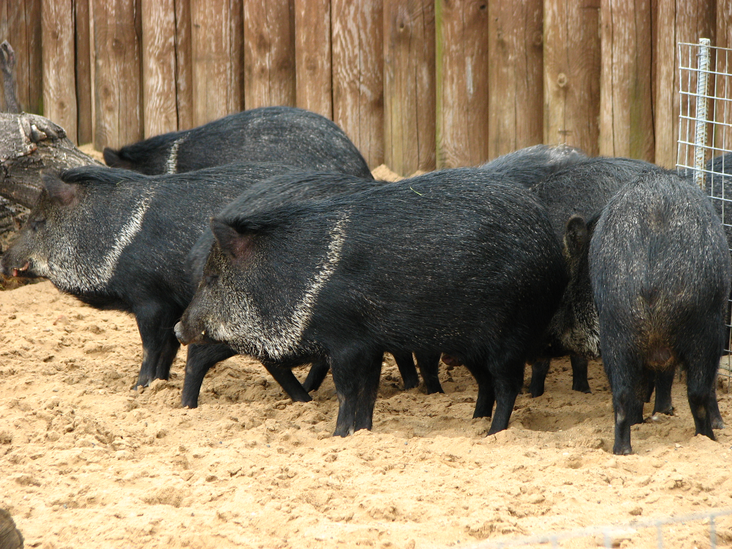 Moscow Zoo. Pecari tajacu.